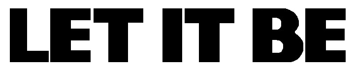 The Beatles Let It Be Logo